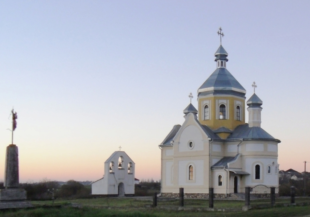 Church of the Holy Virgin (Tserkva Pokrovy). Artyschiv, Horodok Raion.